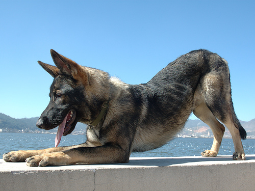 picture of my own Kunming dog